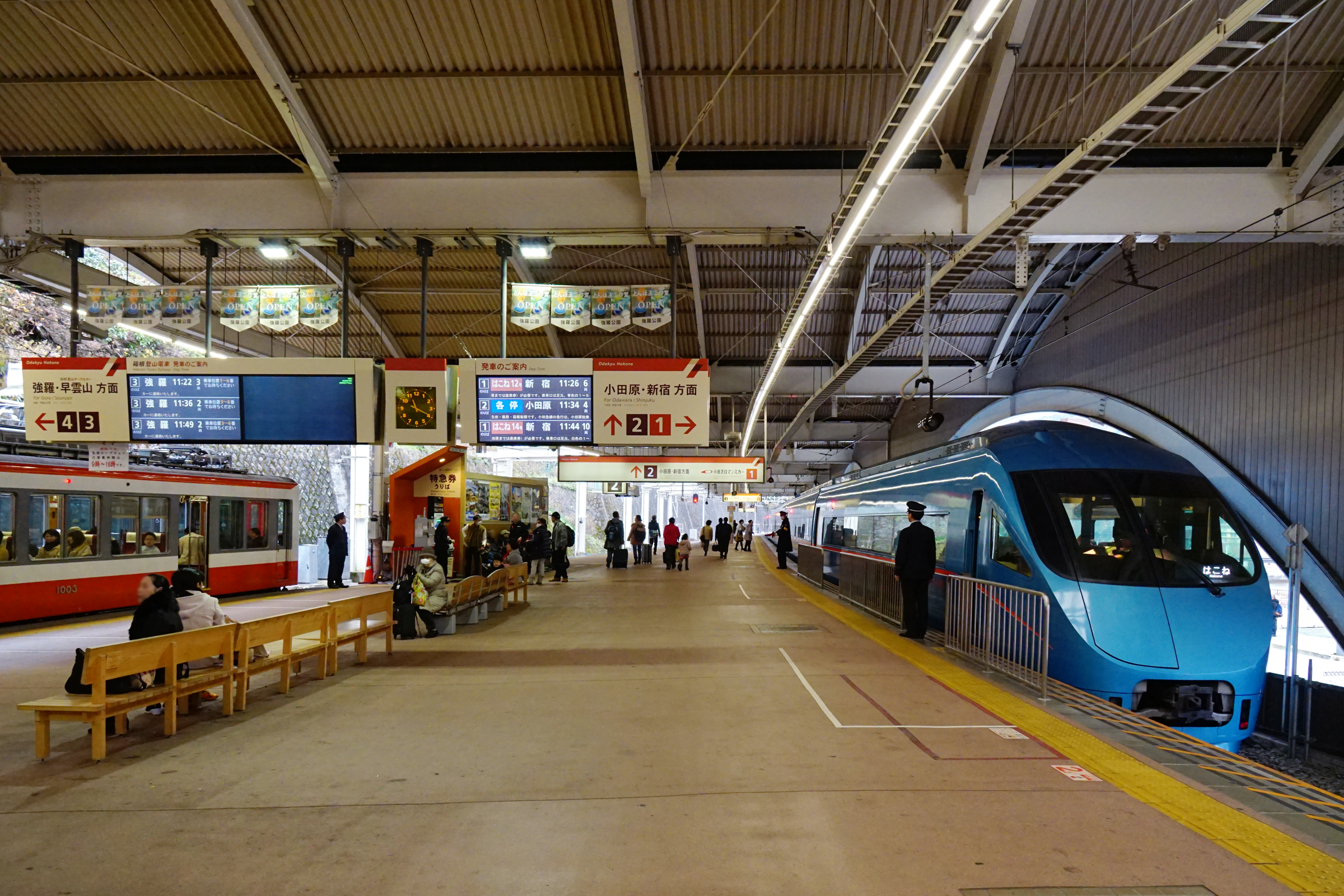 Hakone Tozan Railway 1000 series (left) and Odakyu 60000 series "MSE" (right) trains at Hakone-Yumoto Station in Hakone, Kanagawa prefecture, Japan